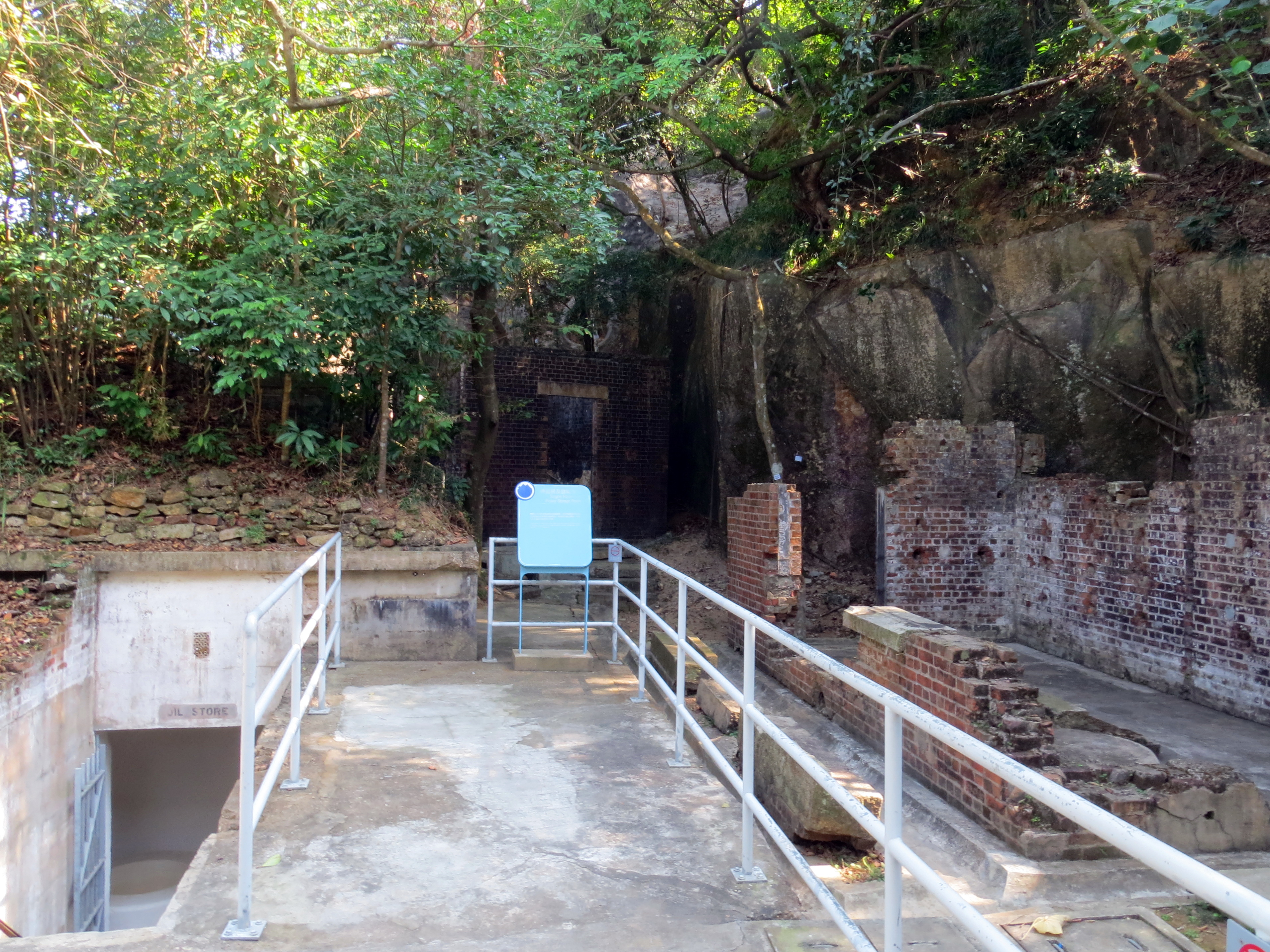 Engine Room, Power Storage Room, and Oil Store (left) (built in the 1890s), Hong Kong Museum of Coastal Defence, Hong Kong.